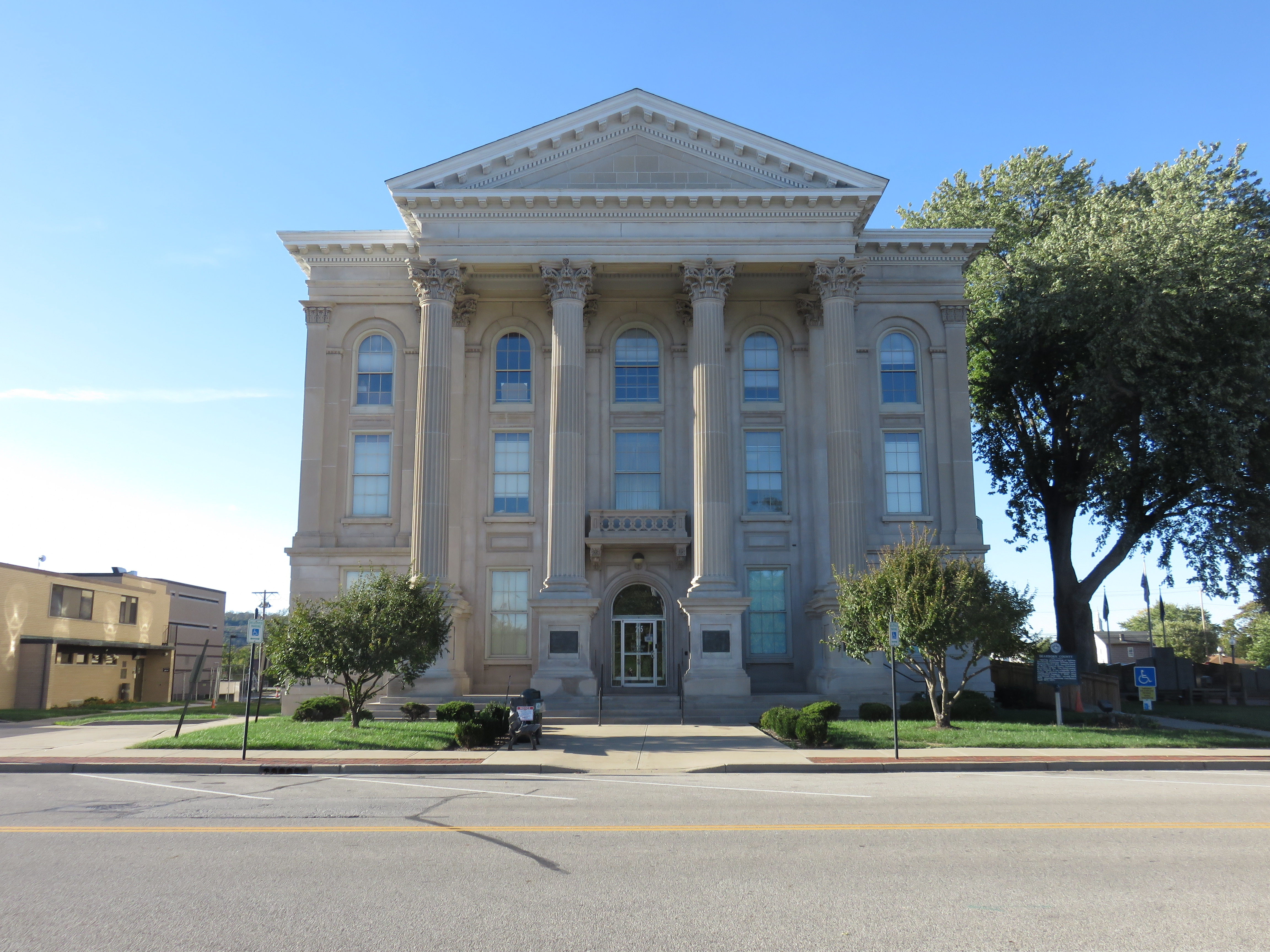 Dearborn County Courthouse in Lawrenceburg, Indiana in 2017